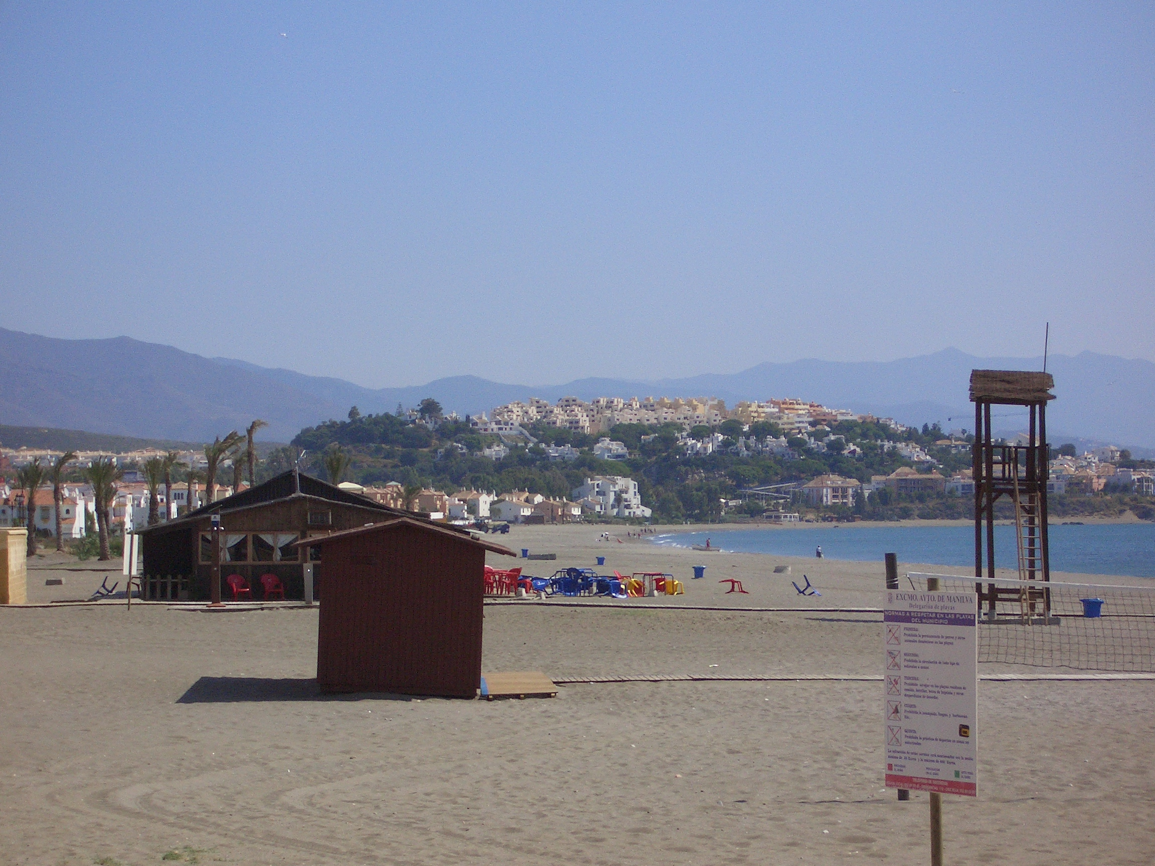 Beach in San Luis de Sabinillas, Manilva, Málaga, Spain